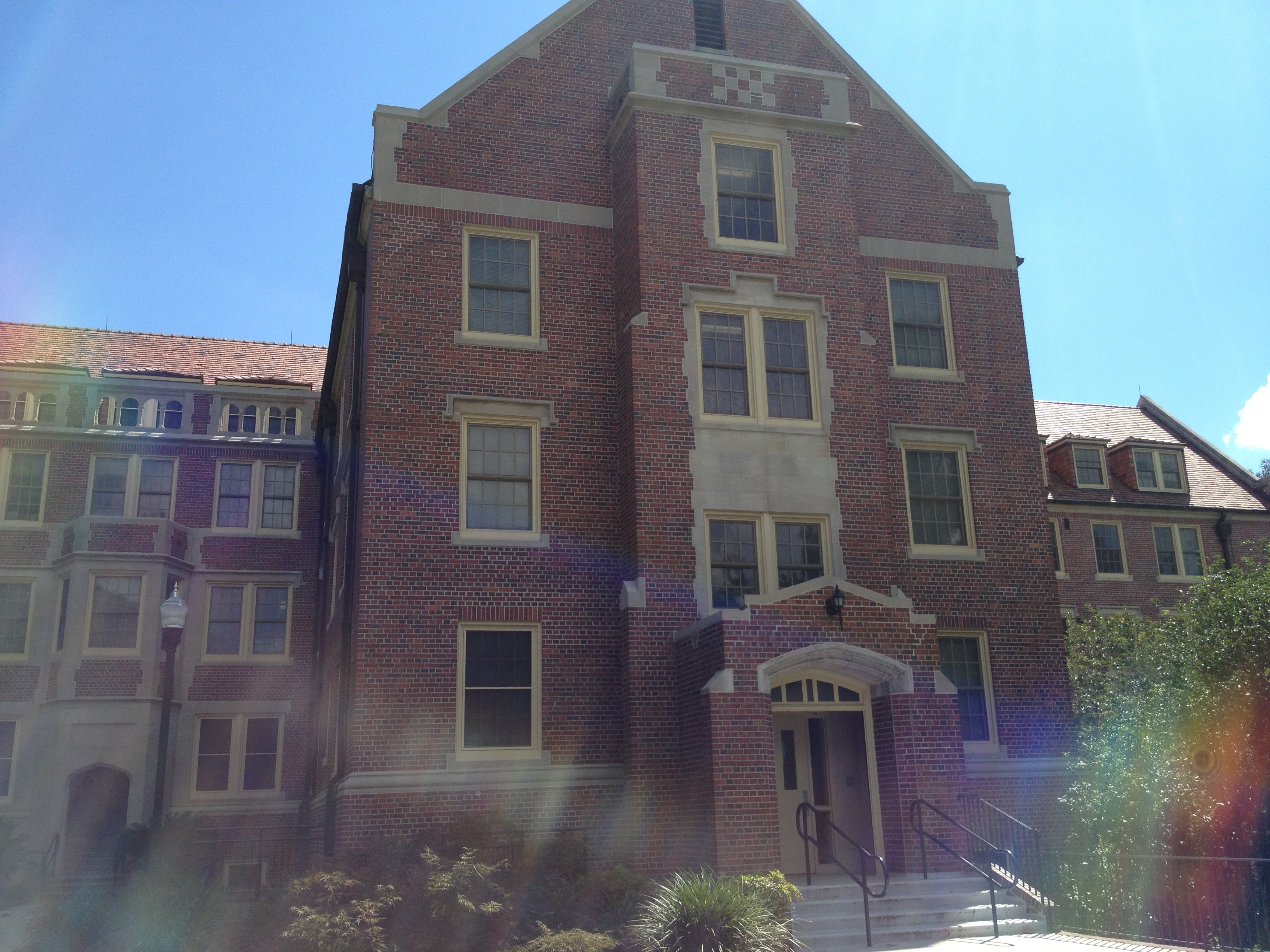 Cawthon Hall